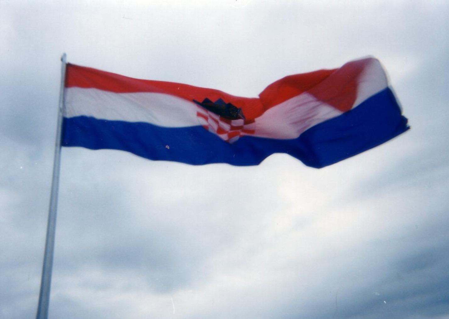 Croatian Flag on Knin old town